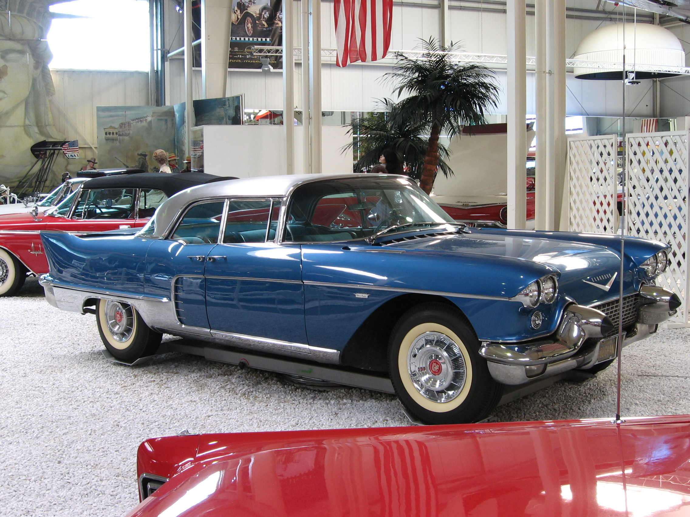 Descr.: Cadillac Eldorado Brougham from 1958 at the Auto- und Technikmuseum Sinsheim / Germany. Picture taken in May 2006 by Christian Kath (me).